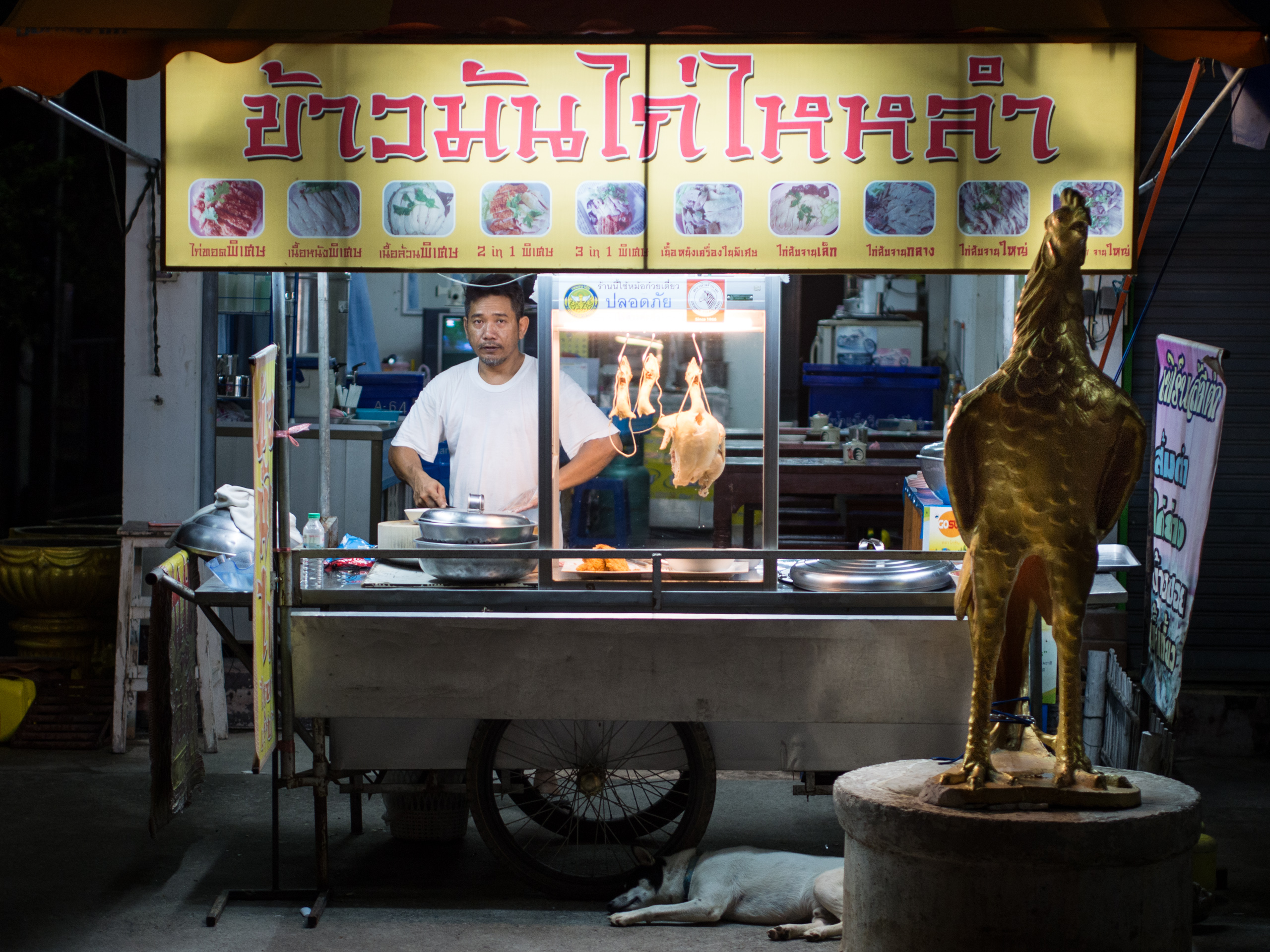 A khao man kai vendor in Chiang Mai, with a few tables out on the street, and a few tables inside his tiny restaurant. His "kitchen" is a food cart.